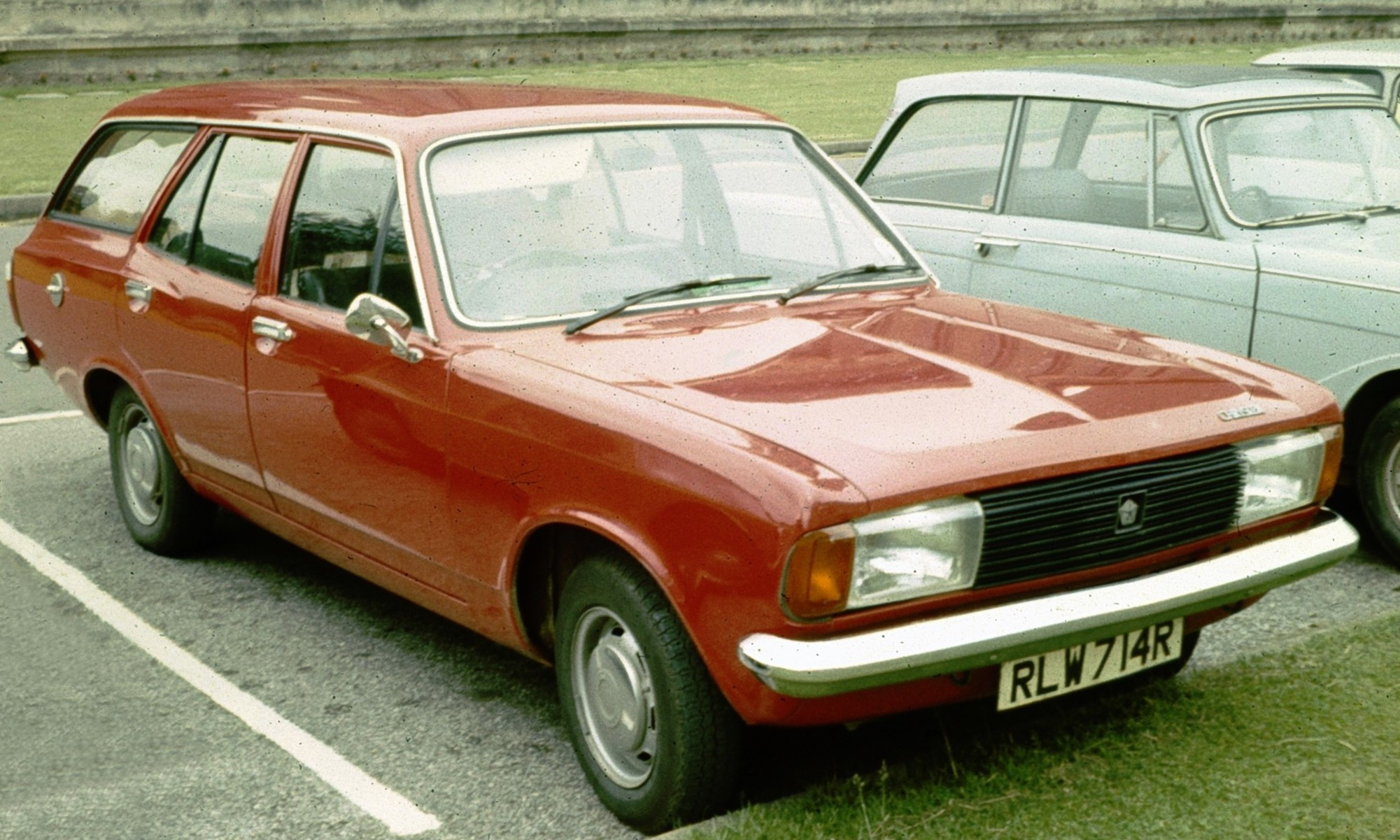 Chrysler Avenger Estate in Cambridge parked outside the University Library (Clare side aka east side)